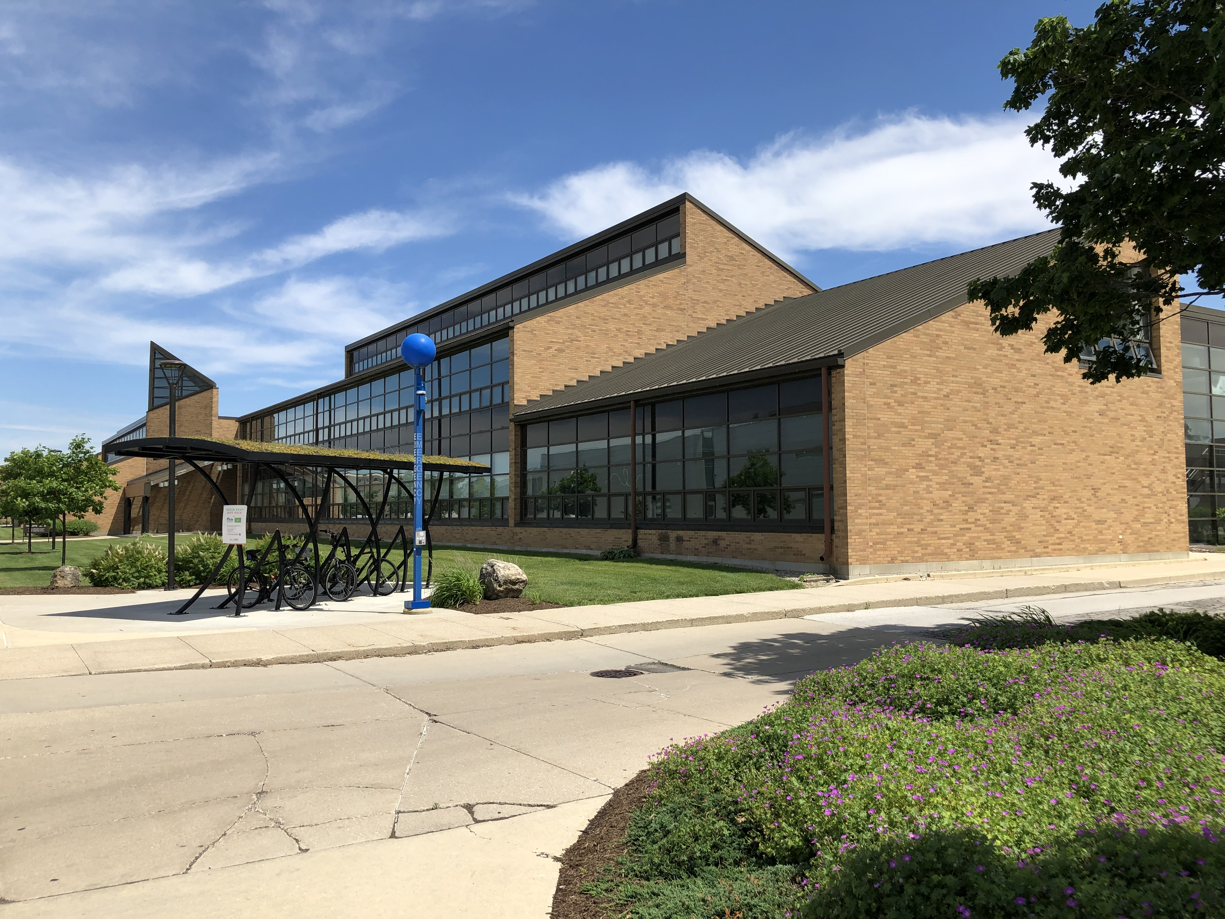 The Fine Arts Building at BGSU. Green Roof Bike Rack and emergency telephone are visible.